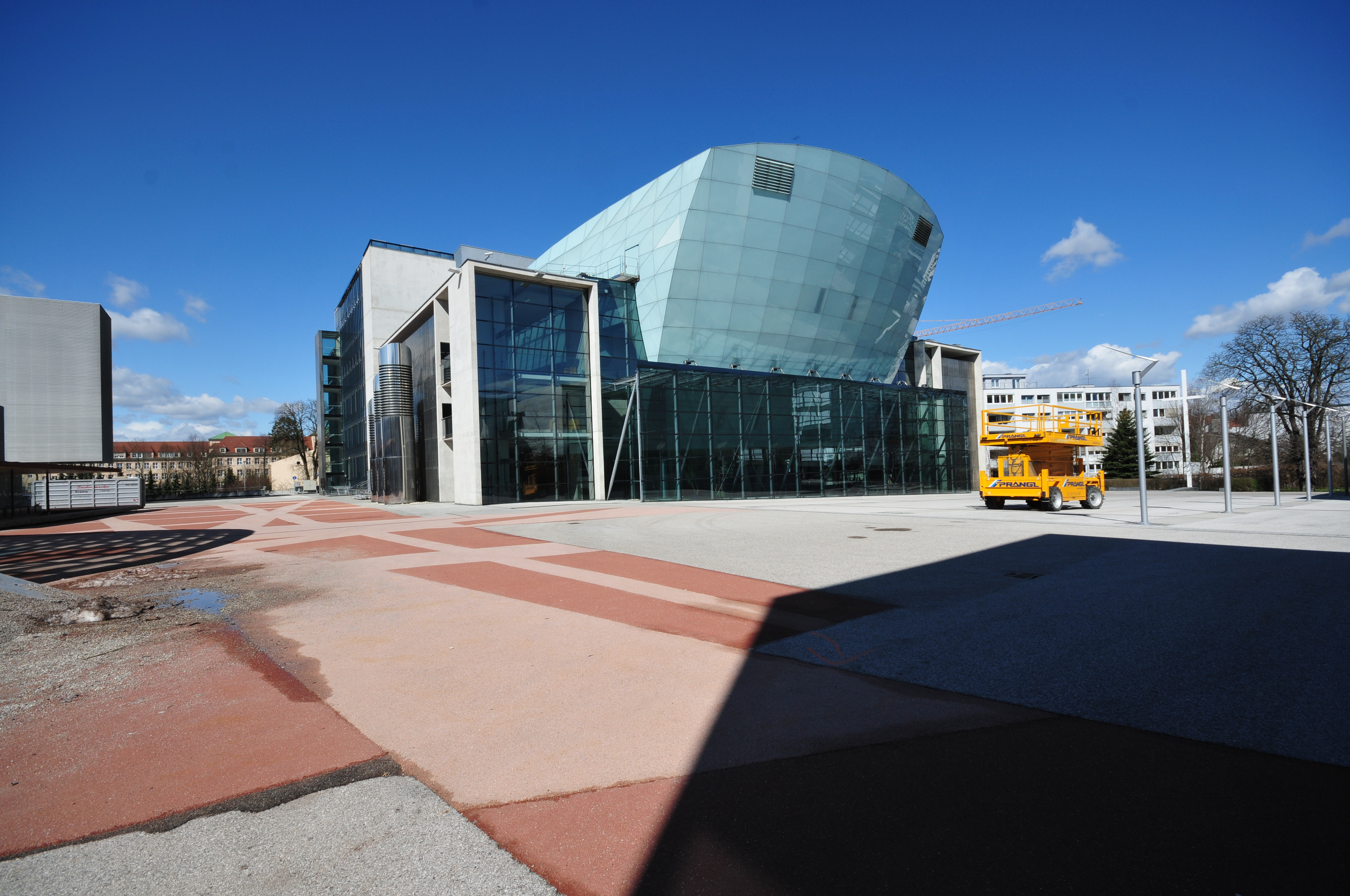 St. Pölten, Austria, Landhausviertel Fotowanderung St. Pölten 13. April 2013 in St. Pölten, Niederösterreich 50mm • Allgemeines • Bahnhof • Domplatz • Fahrräder • Landhausviertel • Rathausplatz